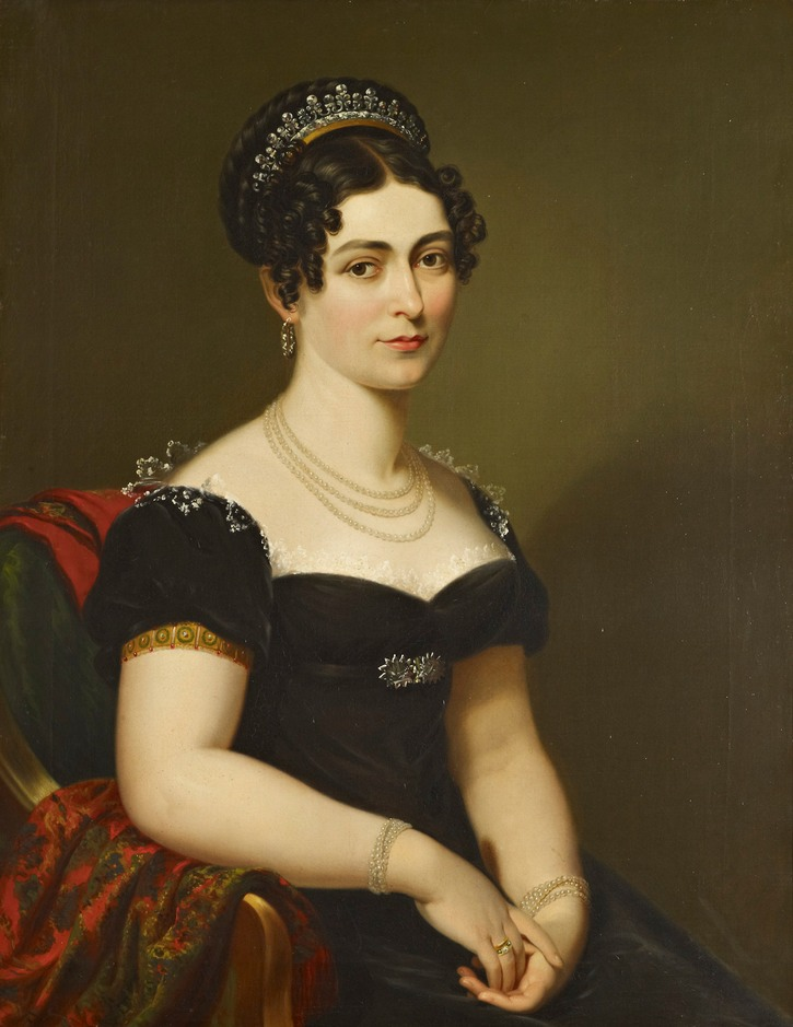 Victoria of Saxe-Coburg-Saalfeld, duchess of Kent